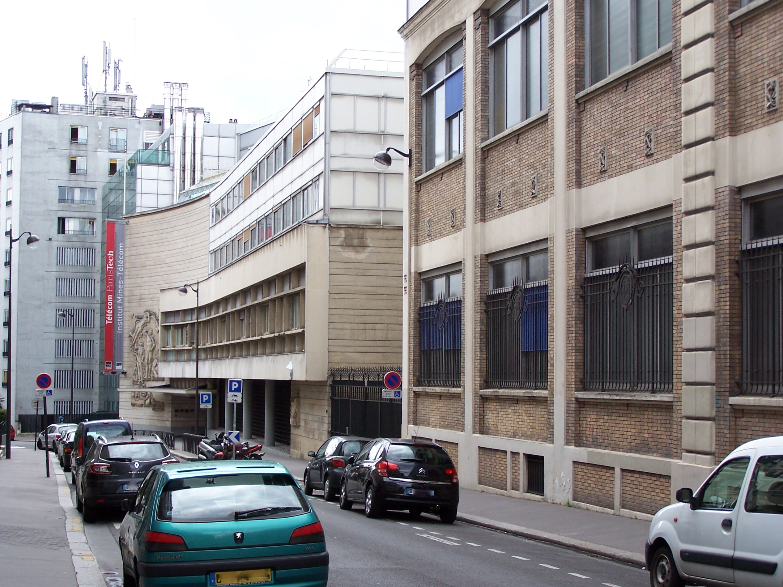 Vue de la rue et de la grande école Télécom-ParisTech